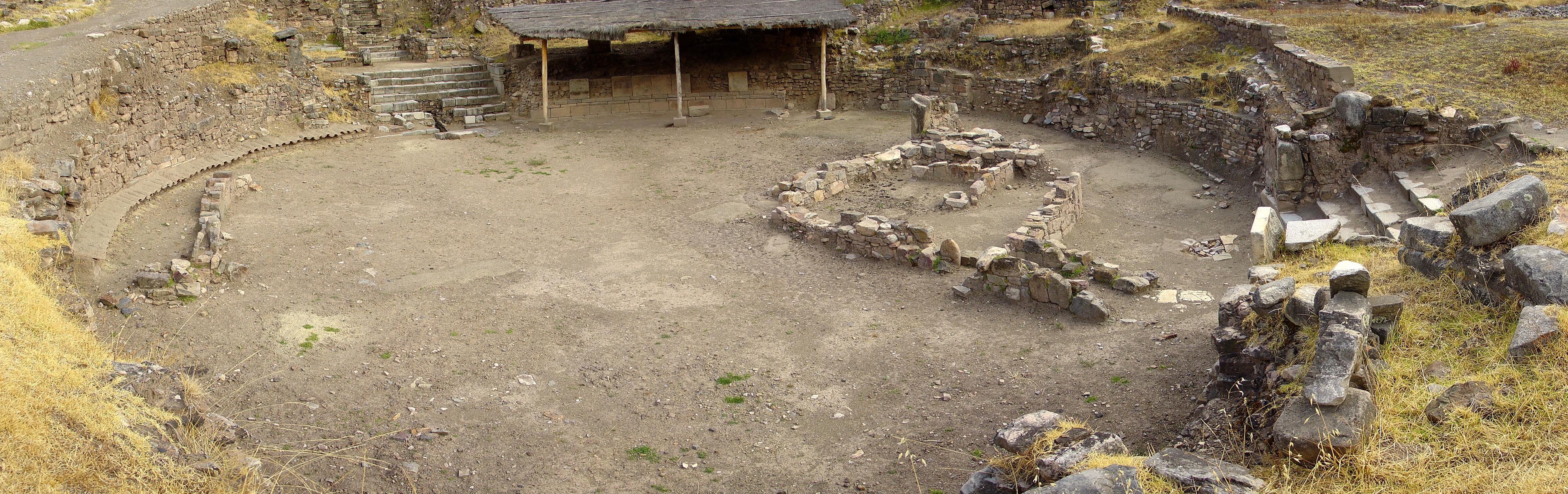 Circular plaza in Chavin de Huantar, Peru